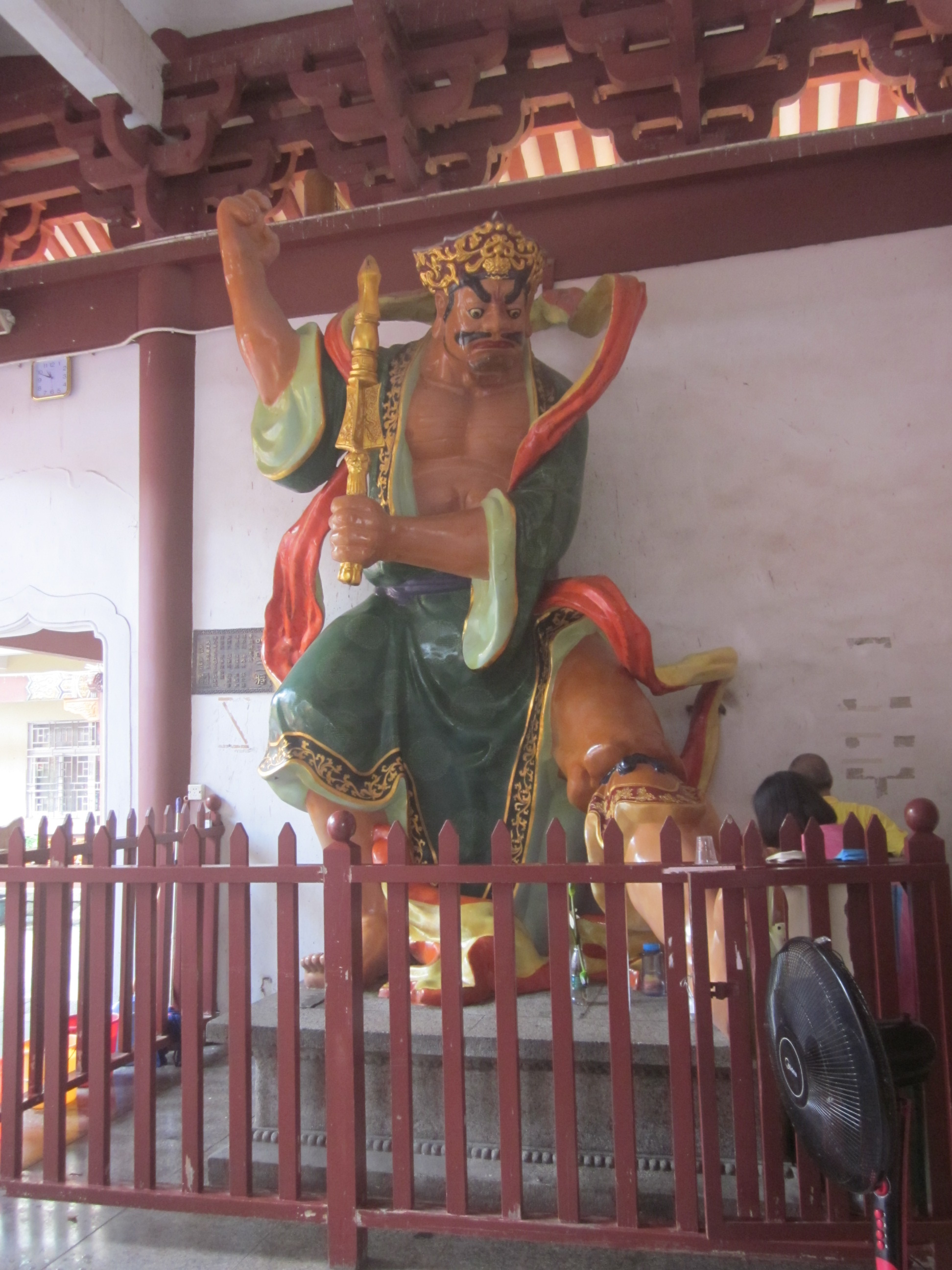 Heng (哼将军) inside in the Sanmon of Hongfa Temple, in Shenzhen, Guangdong, China. The generic name for statues with an open mouth is agyō (哈将军 lit. "a" shape), that for those with a closed mouth ungyō (哼将军 lit. "un" shape"). Hongfa Temple (弘法寺), is a Buddhist temple located in Bao'an District of Shenzhen city, south China's Guangdong province.